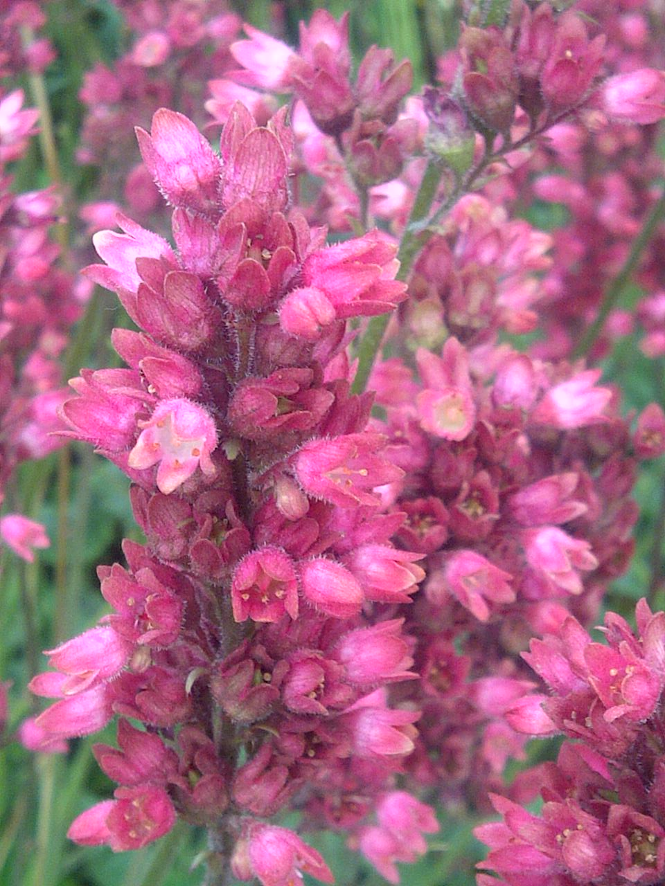 Heuchera sanguinea in London, England.